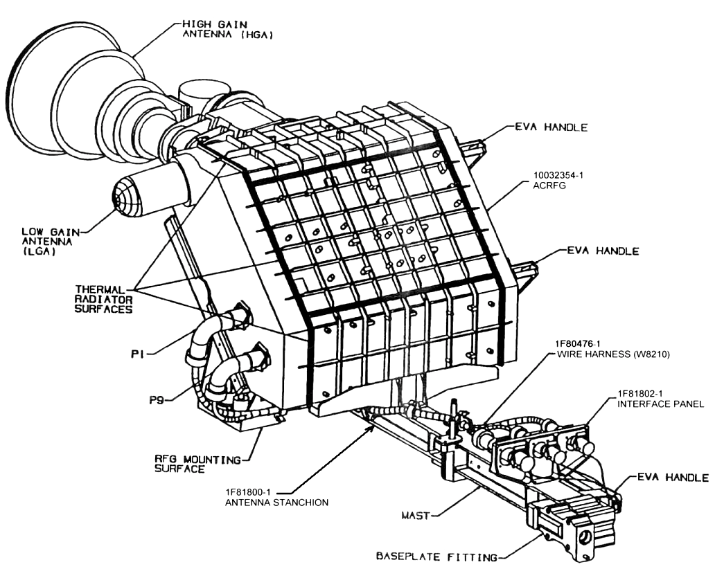 S-Band Antenna Support Assembly (SASA) and Radio Frequency Group (RFG). The SASA assembly is scheduled to be fly with the Space Shuttle Atlantis (STS 129 Mission) to the International Space Station.